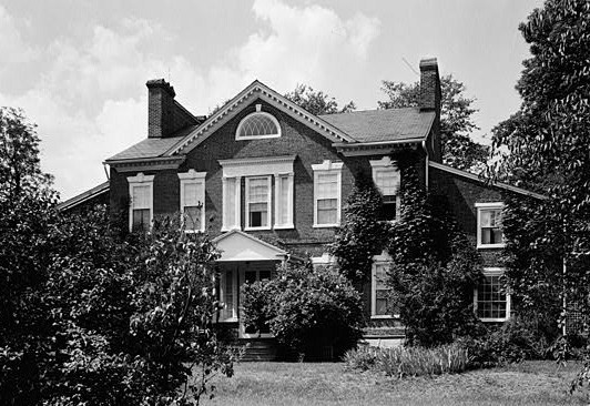 Sion Hill - 2026 Level Road, Havre de Grace vicinity (Harford County, Maryland) (cropped)